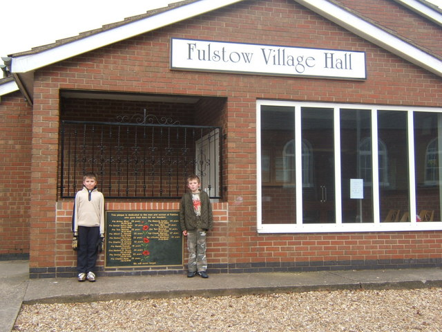 Fulstow Village Hall. This village Hall was built in 1984 with money raised by the village people of Fulstow. A further extension was added in 2005 to house a new snooker room, dressing room, a fixed stage and lighting rig.